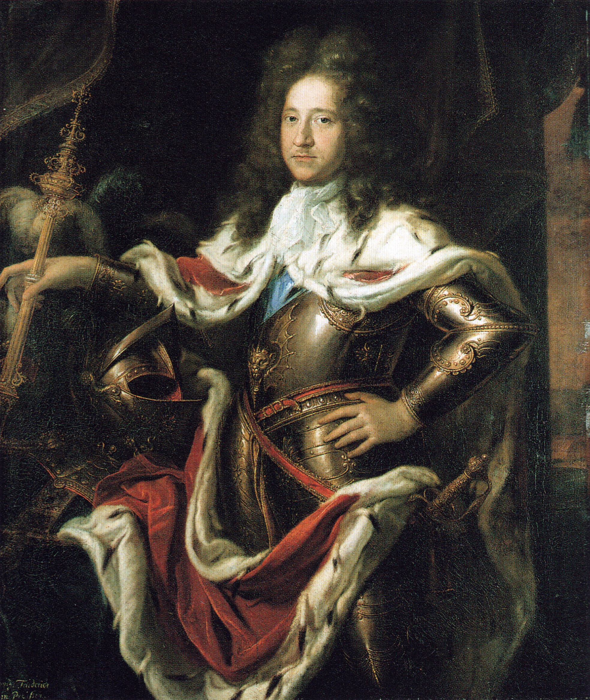 since 1701 King Frederick I of Prussia